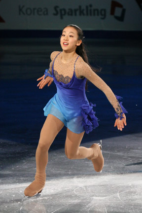 2008 Four Continents Figure Skating Championships - Mao Asada exhibition